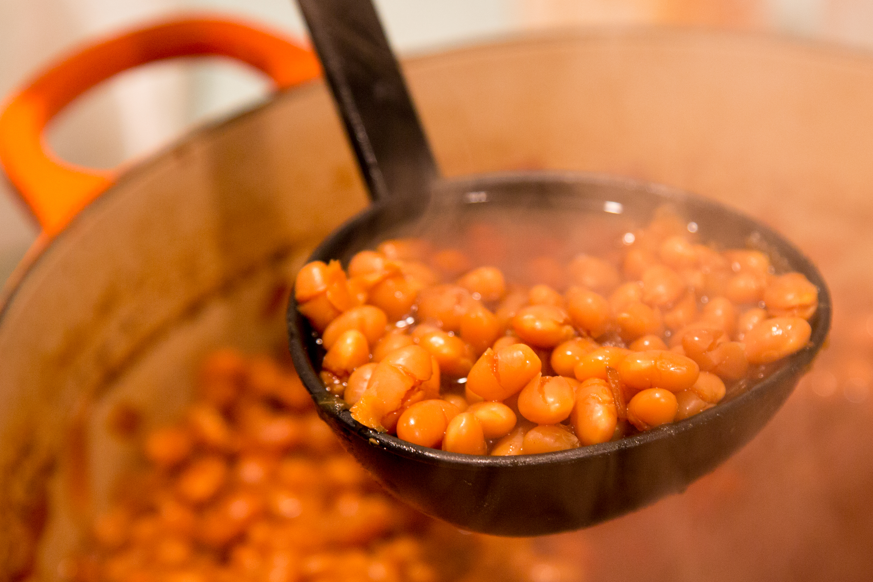 Boston Baked Beans in Concord, Mass